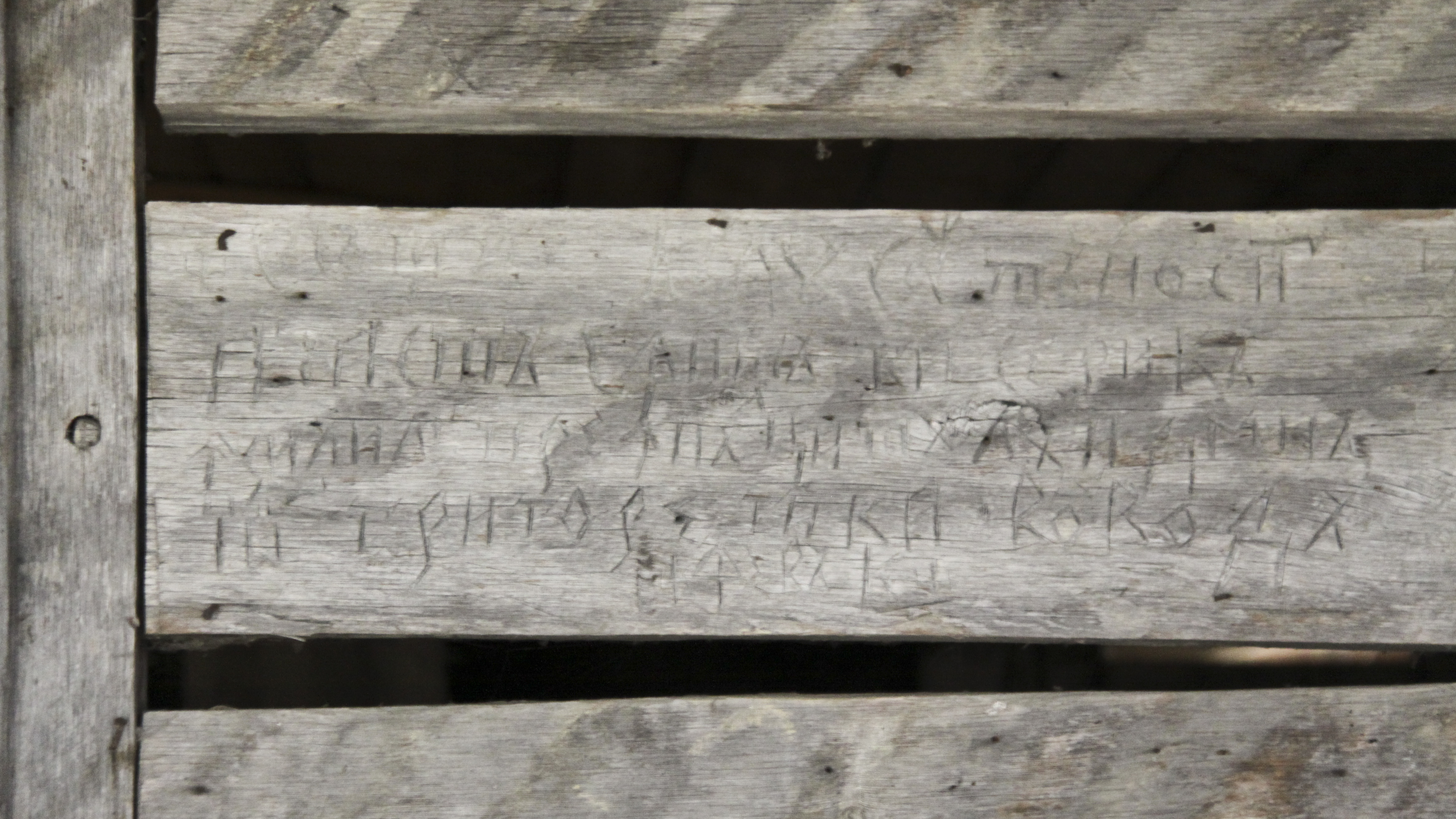 Mesteacăn, Dâmboviţa county, Romania: the wooden church, the entrance, inscription on the left.